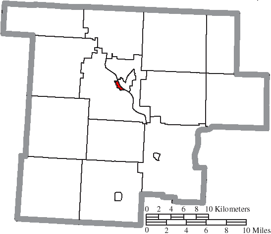 Map of the municipal and township boundaries of Morgan County, Ohio, United States, as of the 2000 census, with the location of the village of Malta highlighted. Township borders are shown only in unincorporated areas in order to differentiate incorporated and unincorporated areas more clearly.